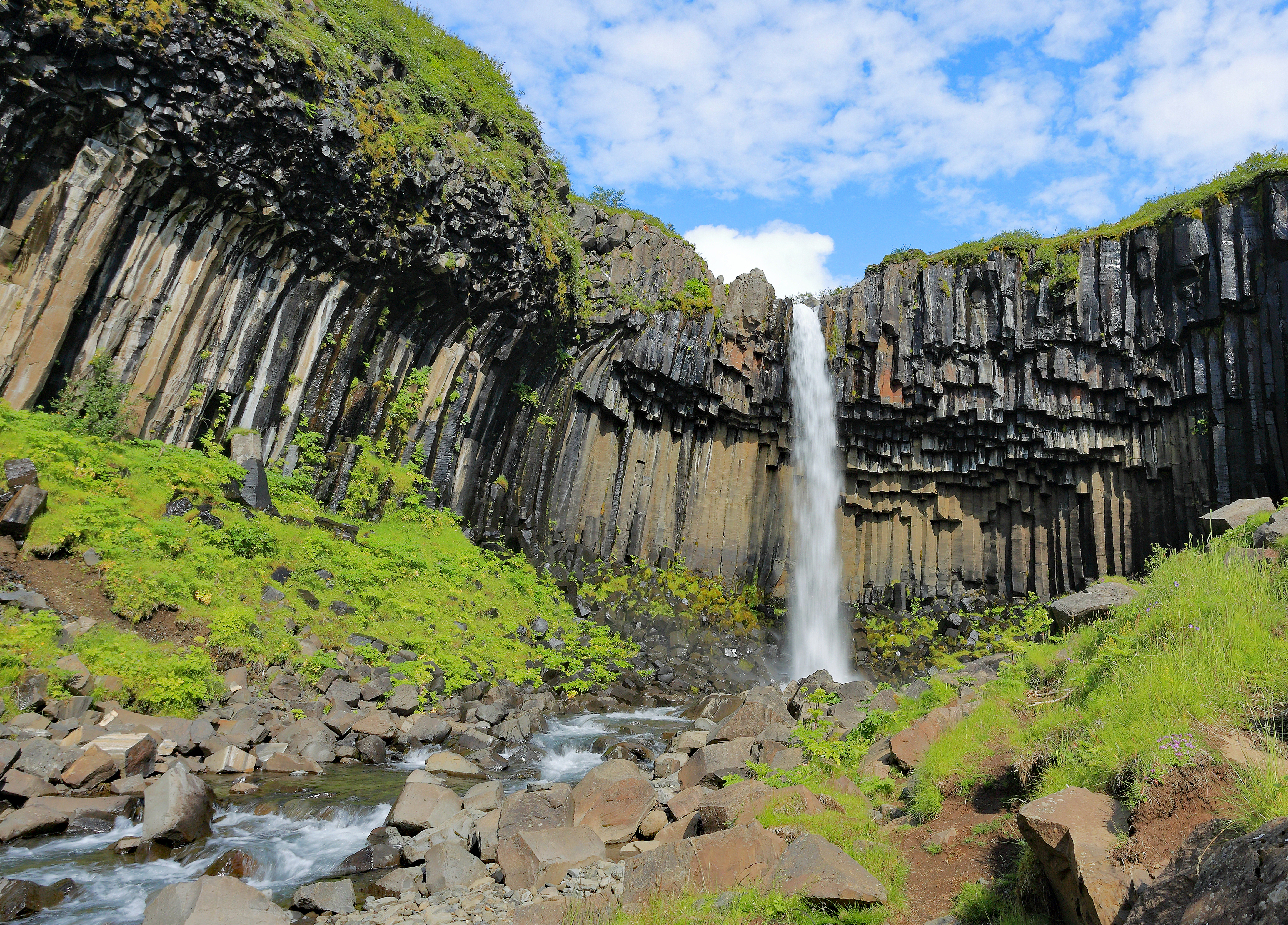 Svartifoss, Iceland, July 2014